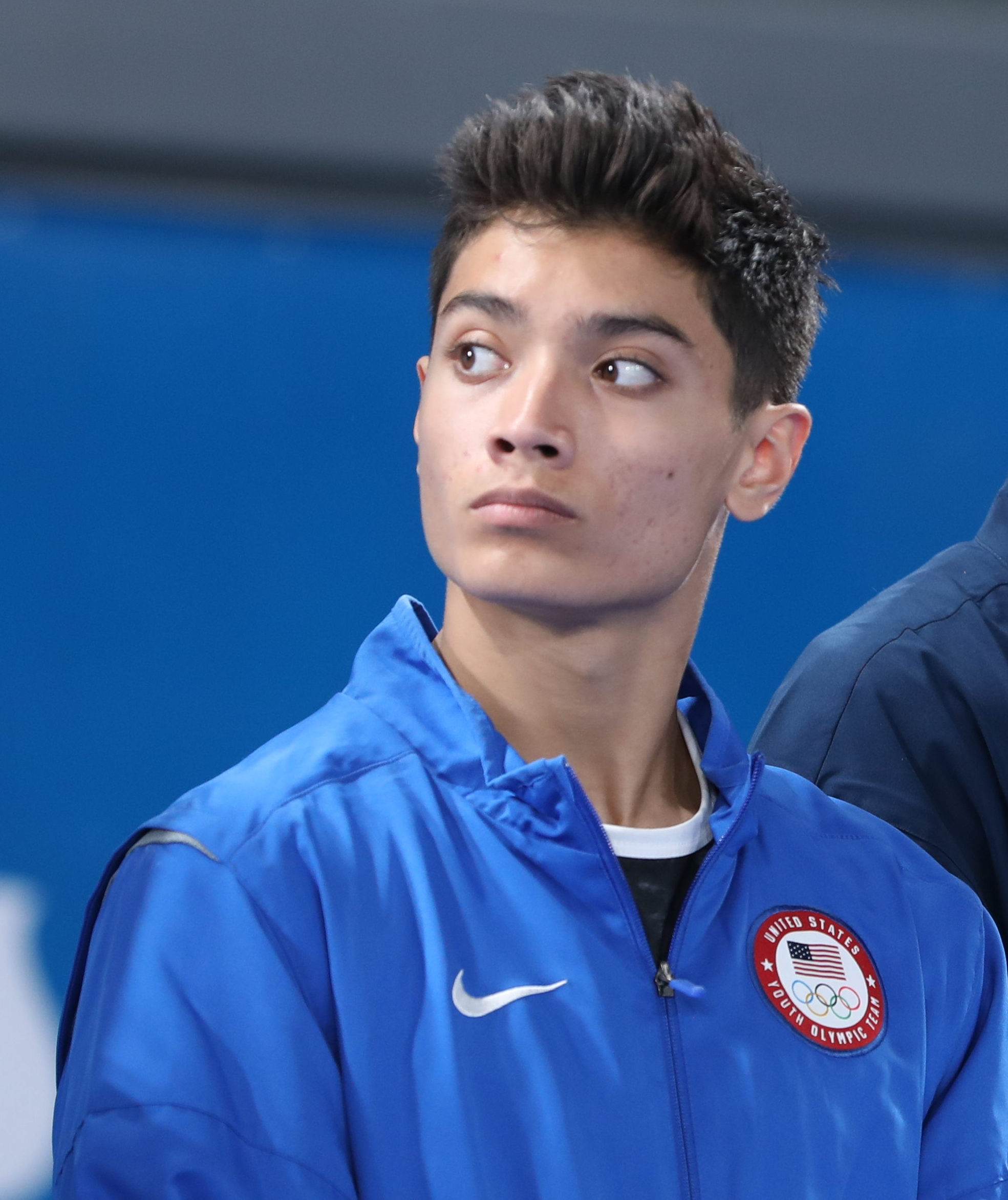 Gymnastics mixed multi-discipline team competition: Victory ceremony